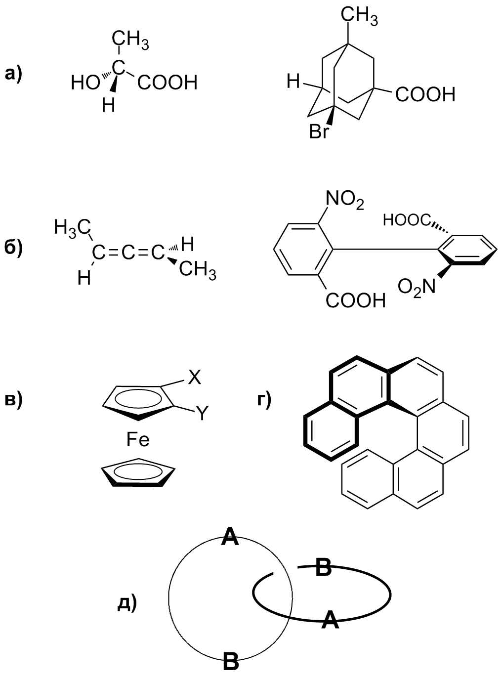 Examples of chiral molecules